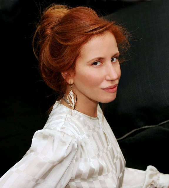 photo of Dorit Bar Or